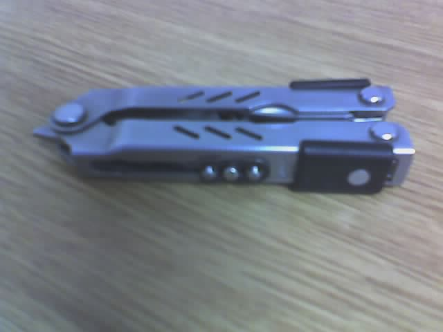 Taken by Pete Verdon for Wikipedia, released to Public Domain. Taken with a mobile phone camera because I want to get it into the article now. The quality sucks - if anyone wants to upload a replacement feel free, or contact me to ask for a better one when I have a proper camera to hand.